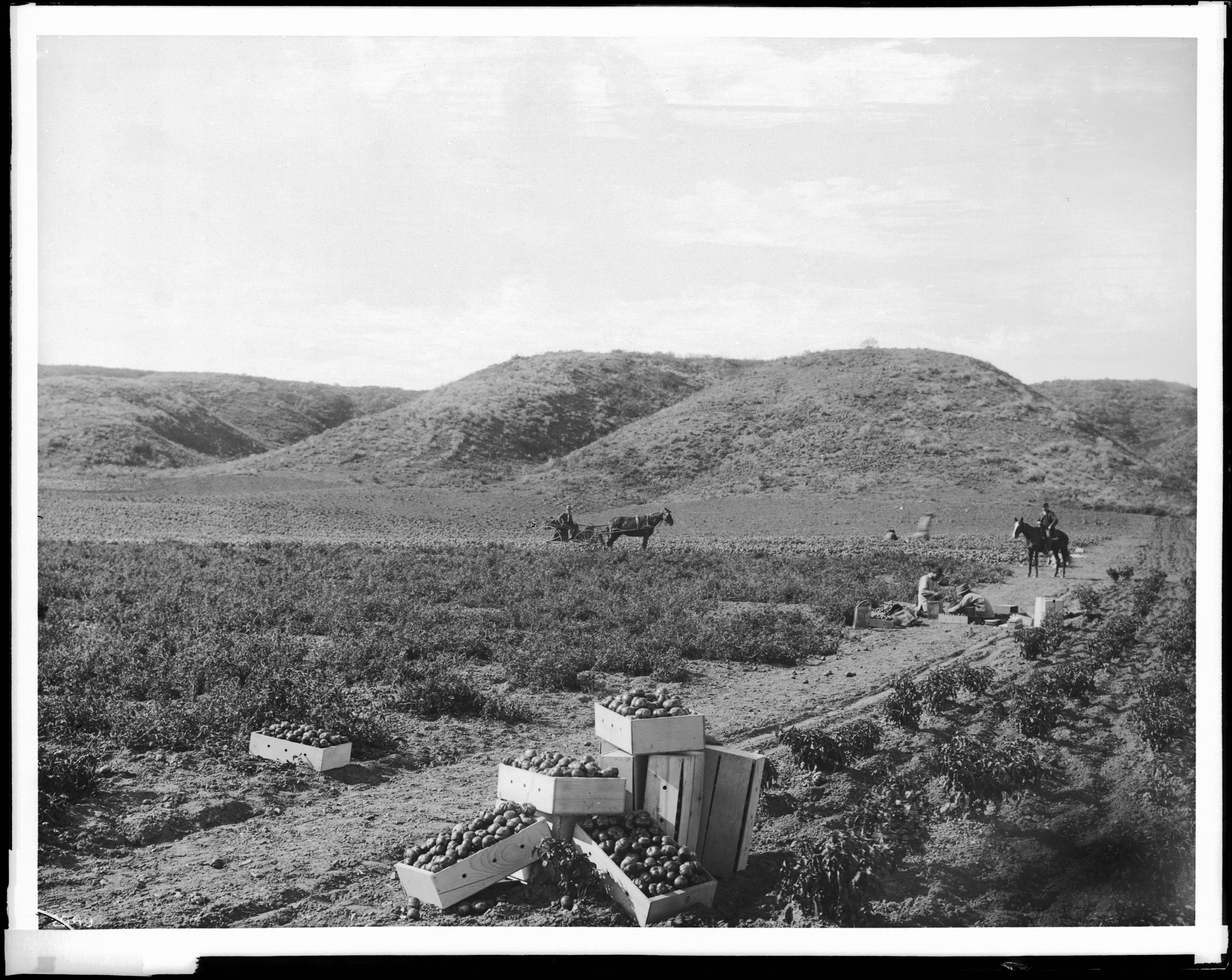 Group of people picking tomatos, Hammel & Denker ranch, foothills east of Sherman, California Photograph of a group of about a half a dozen people picking tomatos, Hammel & Denker ranch, foothills east of Sherman, California. A horse-drawn wagon sits in the field. One person is mounted on horseback. A pile of several full crates sits in the aisle in the foreground. Hills rise in the background. Call number: CHS-2049 Filename: CHS-2049 Coverage date: circa 1903 Part of collection: California Historical Society Collection, 1860-1960 Format: glass plate negatives Type: images Part of subcollection: Title Insurance and Trust, and C.C. Pierce Photography Collection, 1860-1960 Repository name: USC Libraries Special Collections Accession number: 2049 Microfiche number: 1-31-27 Archival file: chs_Volume92/CHS-2049.tiff Geographic subject (city or populated place): Sherman Repository address: Doheny Memorial Library, Los Angeles, CA 90089-0189 Geographic subject (country): USA Format (aacr2): 1 photograph : glass photonegative, b&w ; 21 x 26 cm. Rights: Digitally reproduced by the USC Digital Library; From the California Historical Society Collection at the University of Southern California Subject (adlf): agricultural sites Repository Contributing entity: California Historical Society Date created: circa 1903 Publisher (of the digital version): University of Southern California. Libraries Format (aat): photographs Geographic subject (state): California Legacy record ID: chs-m15297 Access conditions: Send requests to address or e-mail given. Phone (213) 821-2366; fax (213) 740-2343. Subject (file heading): Agriculture -- Crops -- Tomatoes Subject (lcsh): Tomato; Agriculture